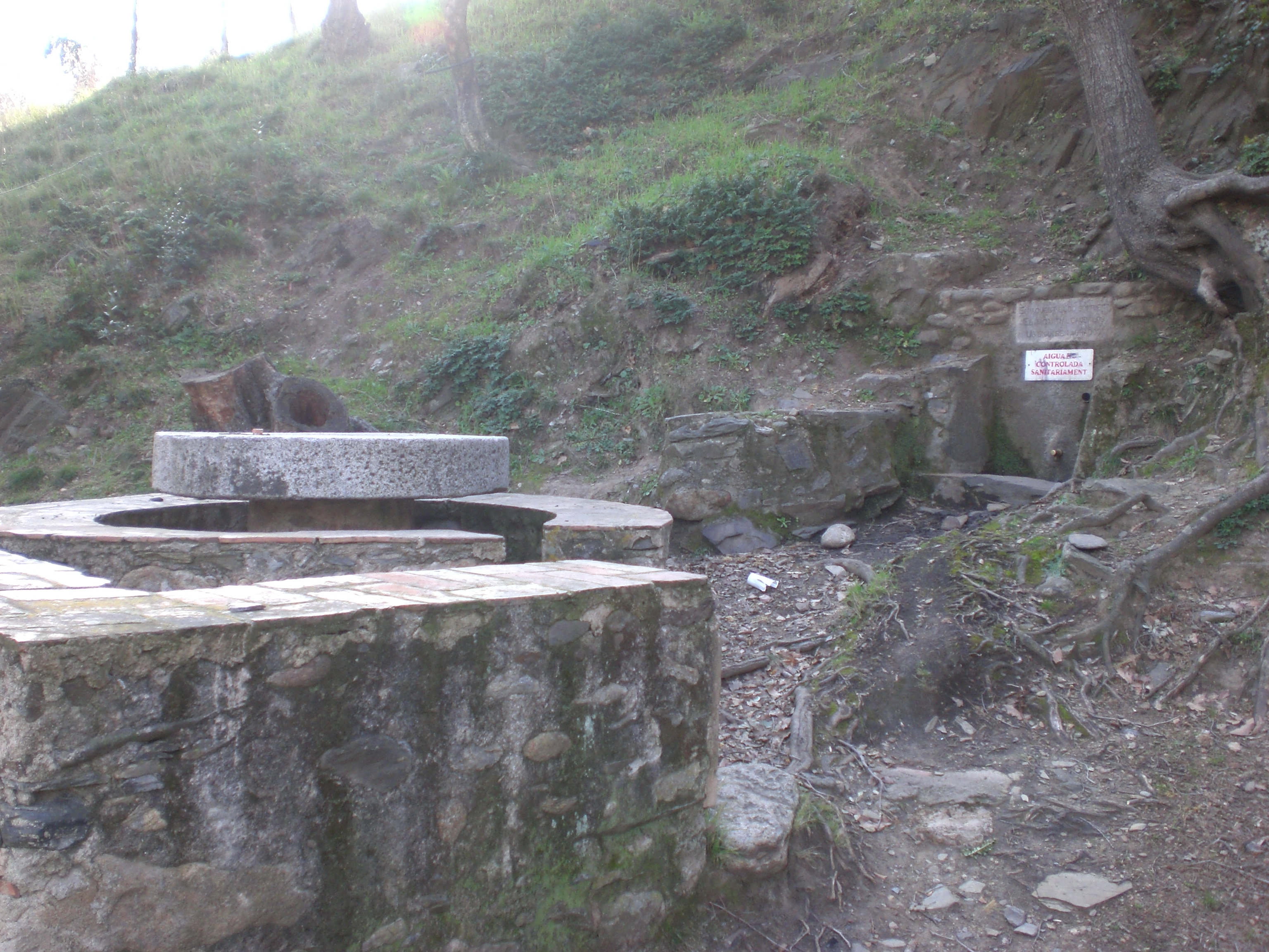 Picture of the Font del Conill (Rabit fountain) sited in Espolla, Catalonia.